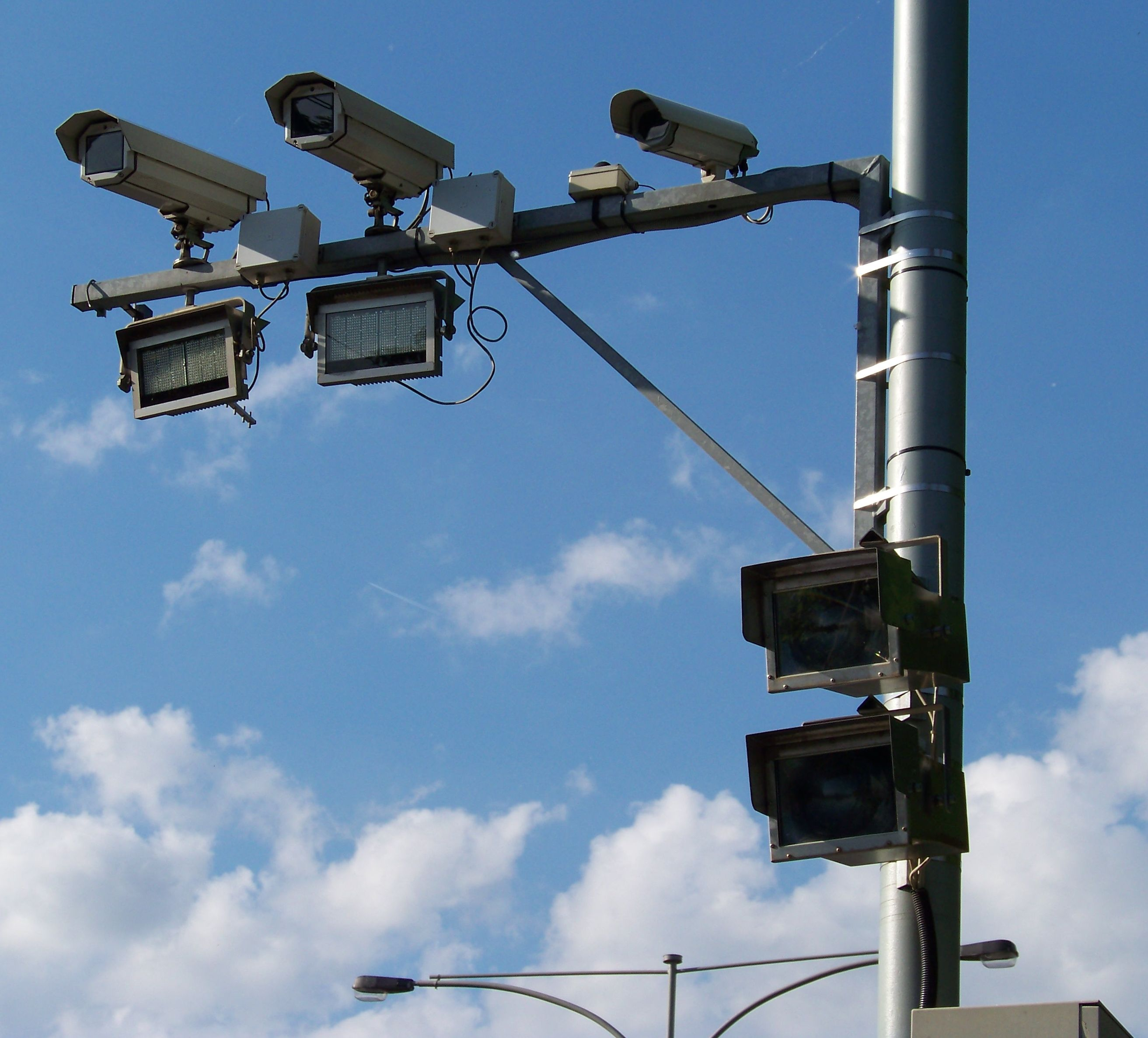 Podolí, Prague, the Czech Republic. Podolské nábřeží street, speed and detection cameras.